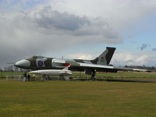 Vulcan bomber and Blue Steel missile Museum of Flight, East Fortune